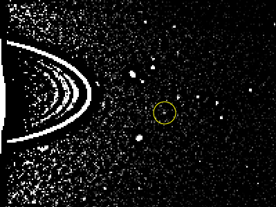 The satellite Cupid is indicated by the circle in the image.